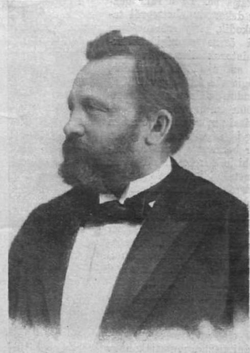 Tamás Vécsey